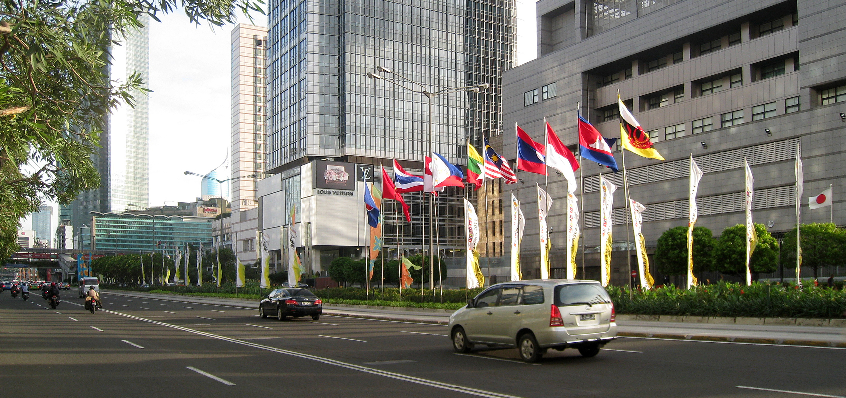 The flags of ASEAN nations raised in MH Thamrin Avenue, right in front of Japanese Embassy in Jakarta, Indonesia, during 18th ASEAN Summit, Jakarta, 8 May 2011.